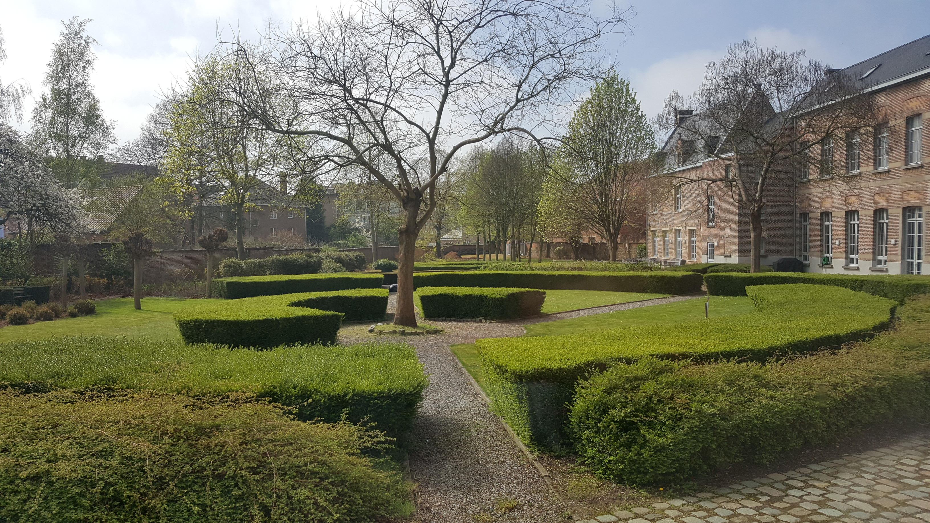 This is a photograph of the Irish College in Leuven, Belgium which hosted the 2nd Crowdsourcing and National Mapping Workshop funded by EuroSDR on 3rd and 4th April 2017. The goal of this workshop was to engage with stakeholders from NMCAs, the Geomatics Industry, academic research, software developers, citizens involved in geographic crowdsourcing and VGI, leaders or managers of crowdsourcing or VGI projects over 1.5 days to develop a set of the most prominent and pressing questions related to crowdsourcing and national mapping in Europe (and beyond) today. Overall the workshop was a great success. There were 52 participants from all over Europe including academia, industry, National Mapping and Cadastral Agencies and crowdsourcing projects.